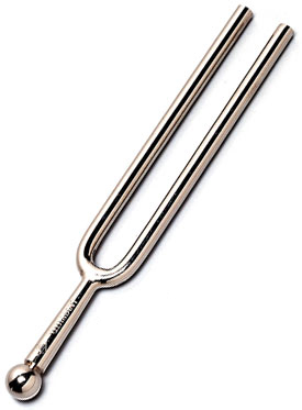 tuning fork